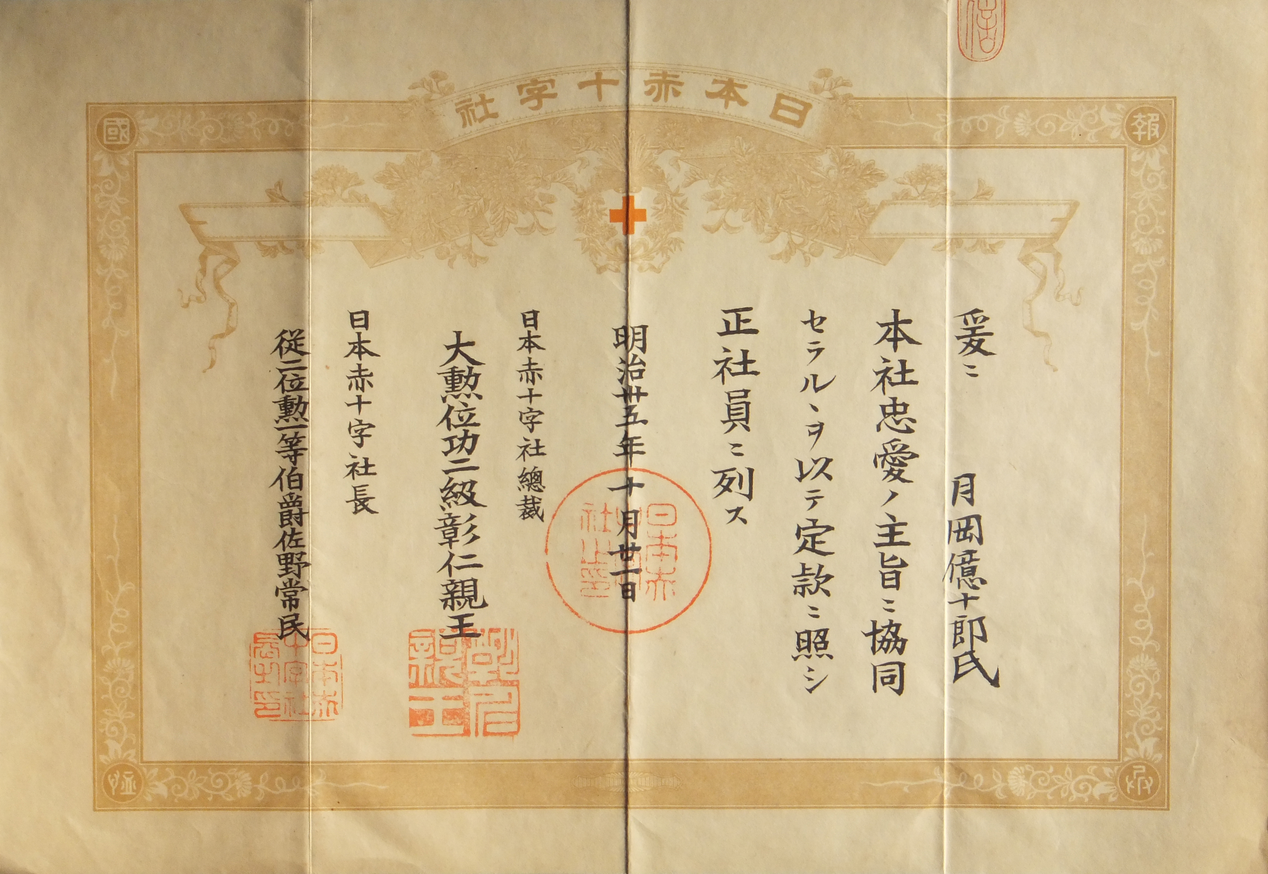 Membership certificate (Japanese Red Cross Society ) issued for the the physician Tsukioka Okujūrō on 21 October 1902 by Prince Komatsu-no-miya Akihito (11 Febr 1846 – 18 Febr 1903) and Sano Tsunetami (28 Dec 1822 – 12 Dec 1902). Sano was the founder of the Japanese Red Cross Society and its first director.